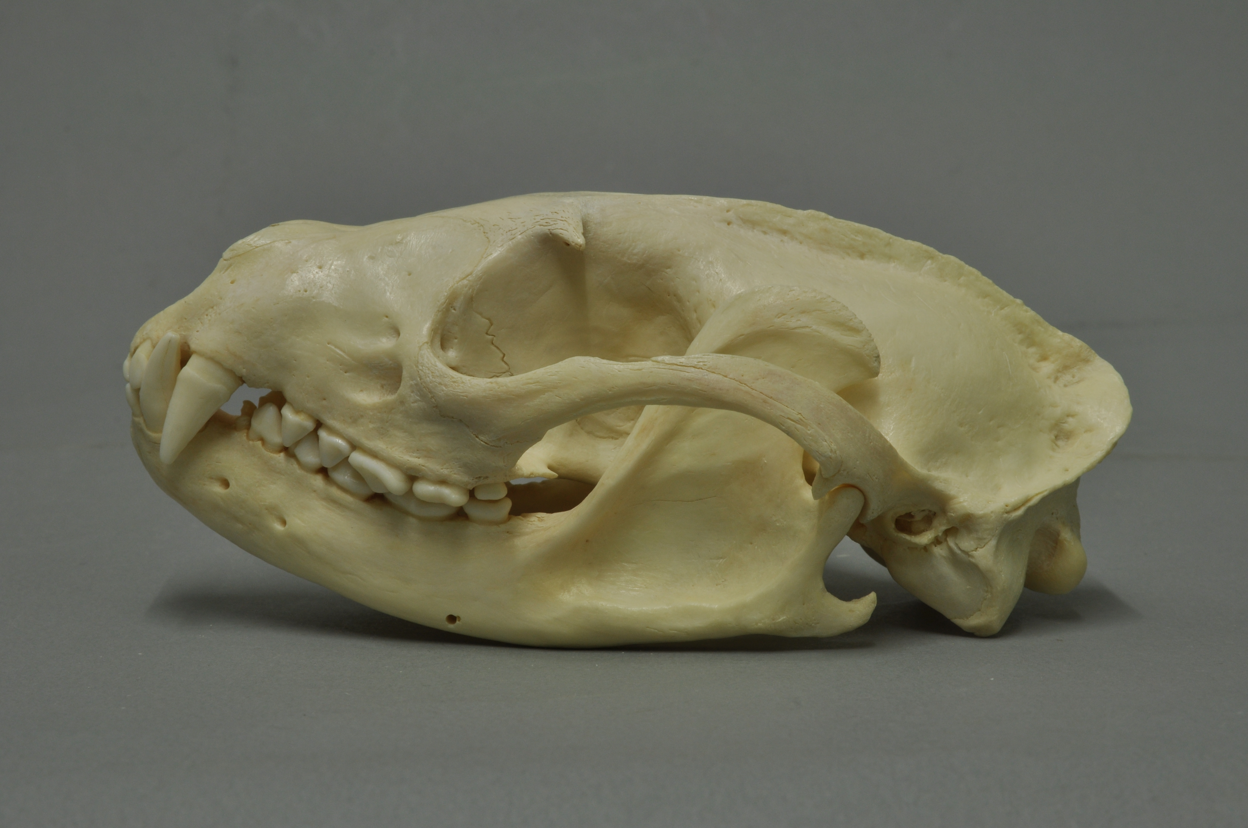 Masked palm civet Paguma larvata, skull, Coll. Museum Wiesbaden